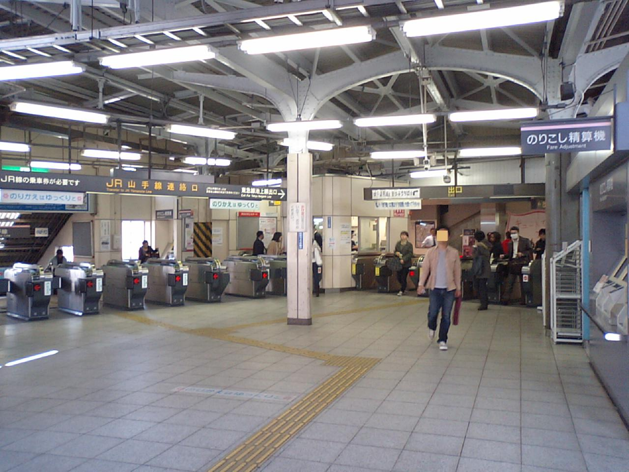 Ticket gate of Tokyu Gotanda Station.